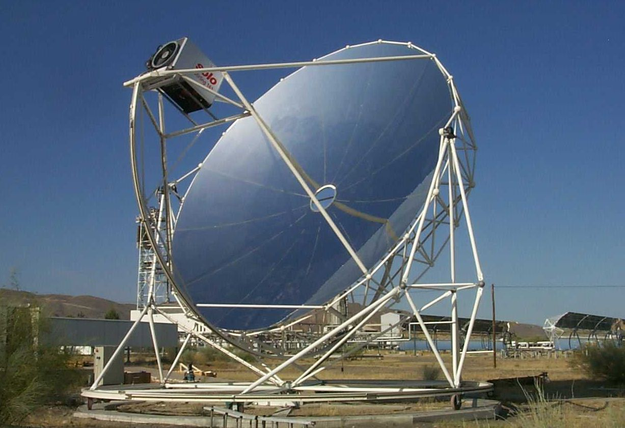 Image by: Schlaich Bergermann und Partner and released into public domain at - This site states explicitly that all images are public domain. See copy at internet archive .